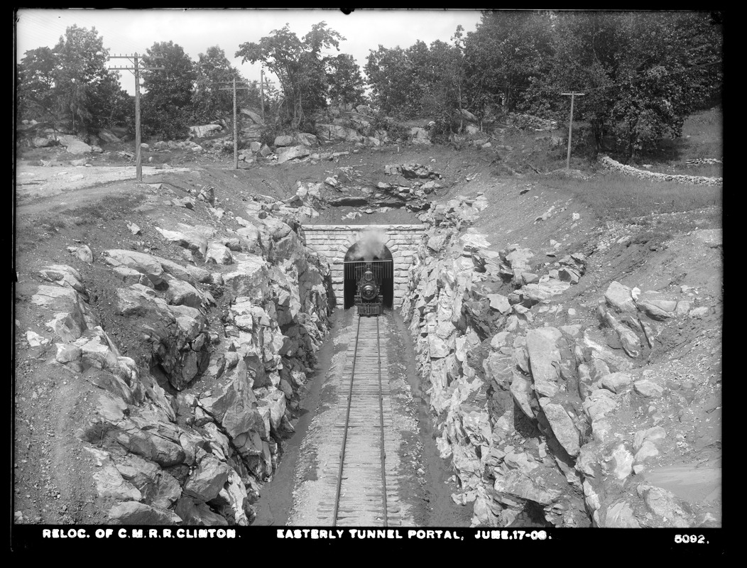 Central Massachusetts Railroad Relocation, easterly tunnel portal, Clinton, MA, Jun. 17, 1903